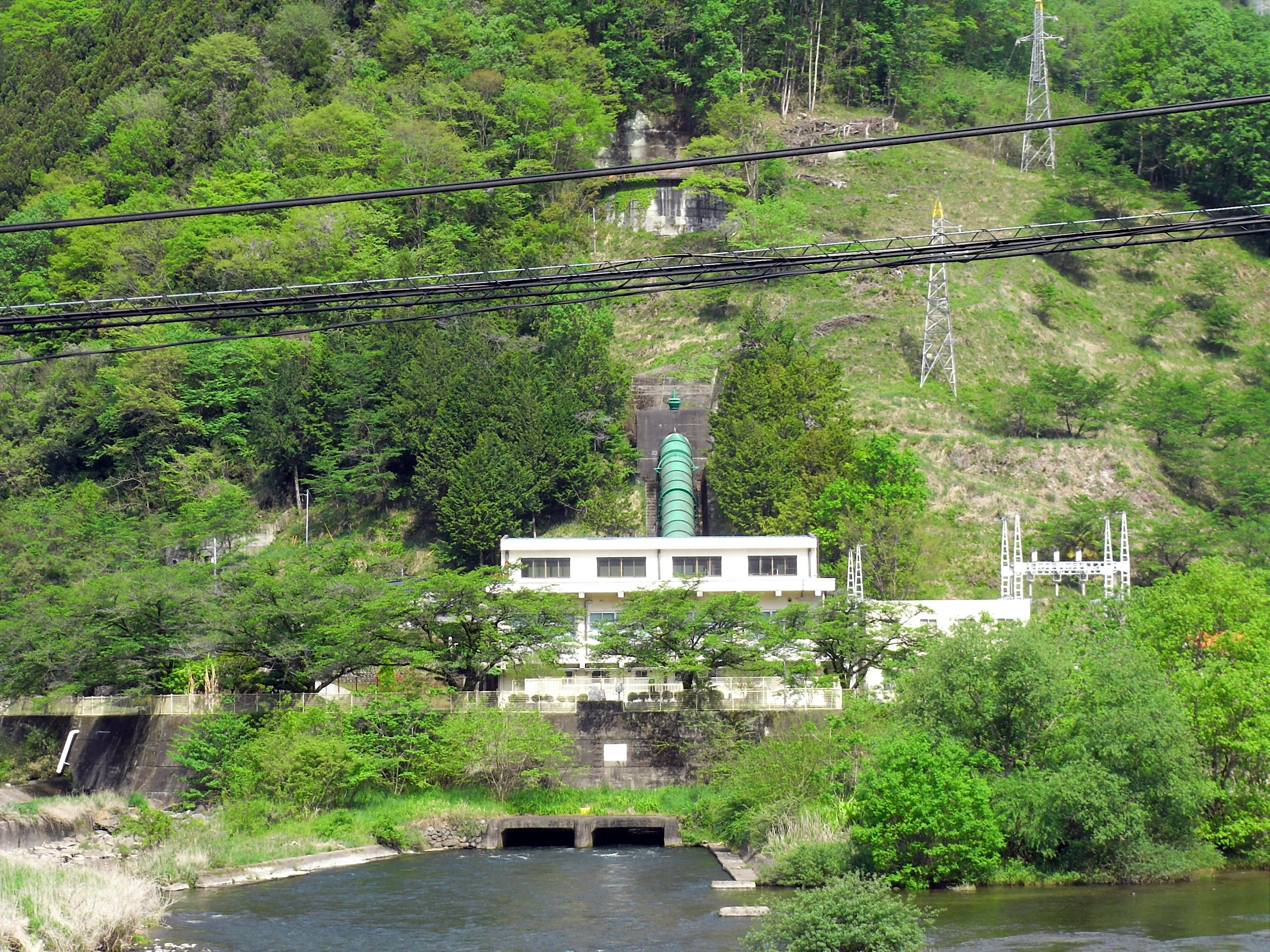 Niimi power station(Nisigawa river/Okayama pref./Japan)